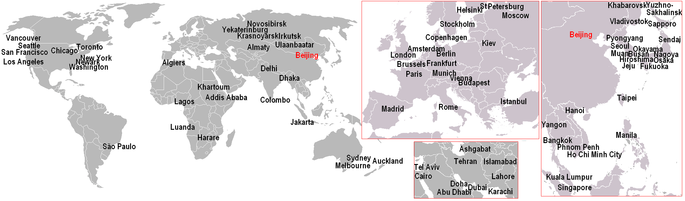 Direct international flights with PEK